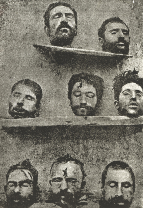 Caption of photograph reads: The Above Photograph Shows Eight Armenian Professors Massacred by the Turks